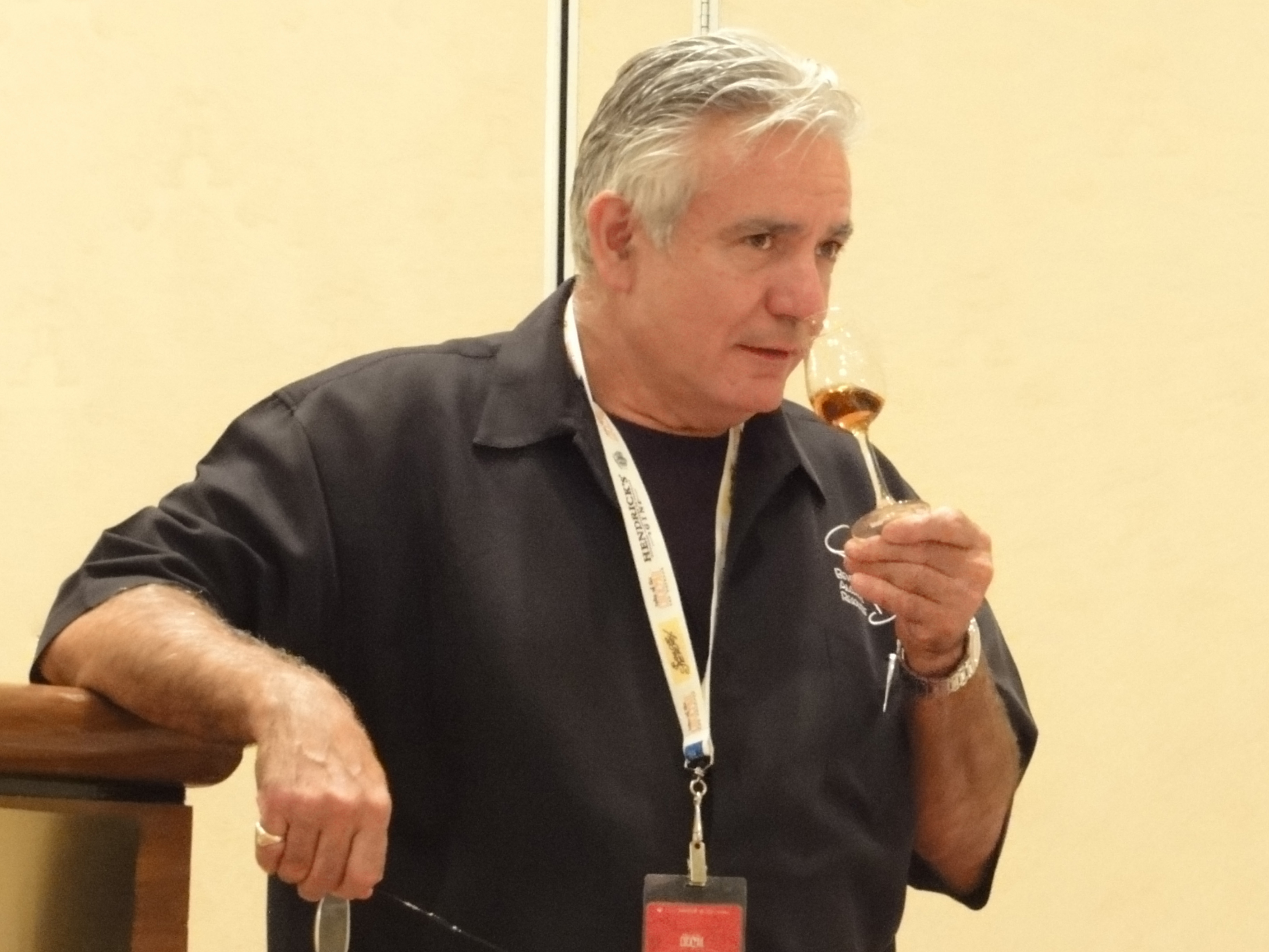 Dale DeGroff savors the aroma of a fine Armagnac. Tales of the Cocktail, New Orleans